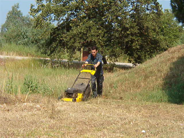 Man with a lawn mower in Greece – "YES, battle ready! to KILL THOSE WEEDS!"